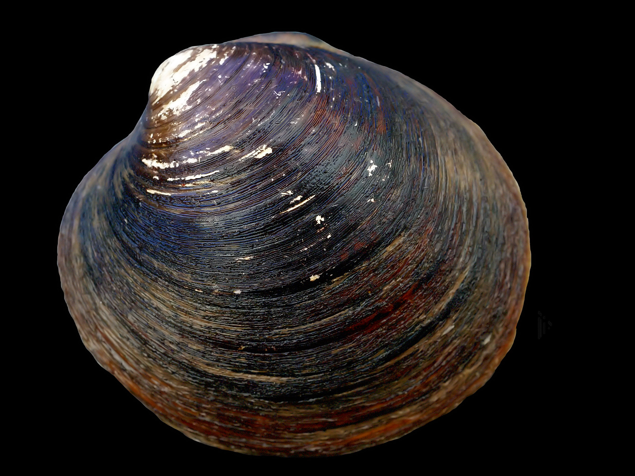 Ocean quahog from the North Sea. This is a retouched picture, which means that it has been digitally altered from its original version. Modifications: Removed (already dark) background.